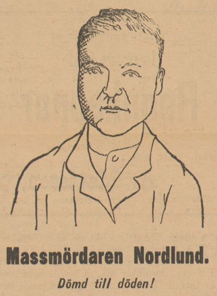 Engraving of the Swedish murderer Johan Filip Nordlund (1875-1900), by an anonymous artist. Published in the newspaper Trollhättans Tidning 1900-07-03 (53), p. 2. The text, in translation to English, reads: "The Mass Murderer Nordlund. Sentenced to death!"